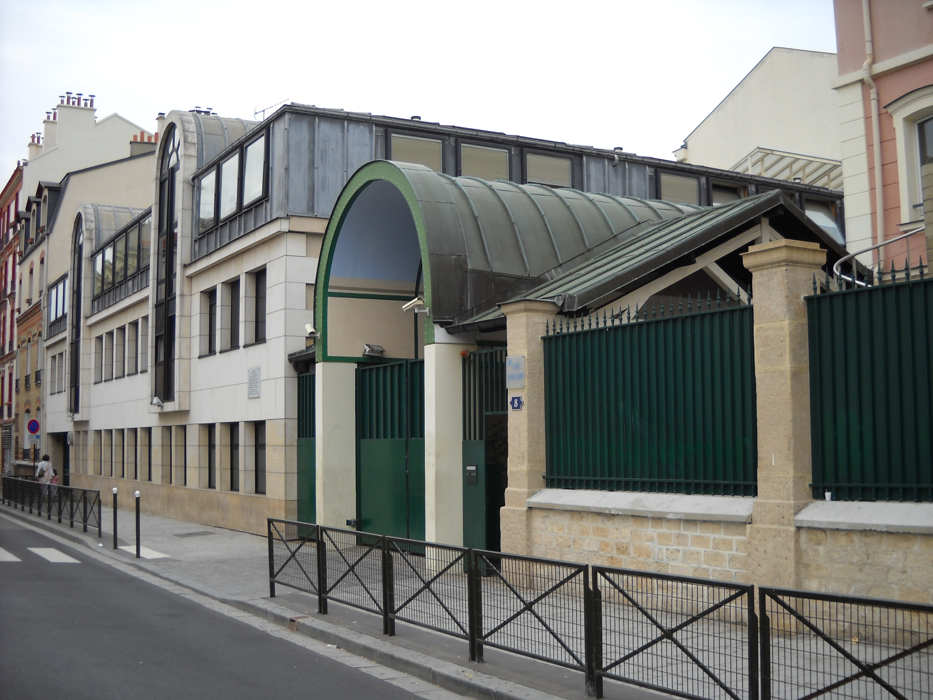 Notre-Dame de Boulogne high school, in Boulogne-Billancourt, Hauts-de-Seine, France.